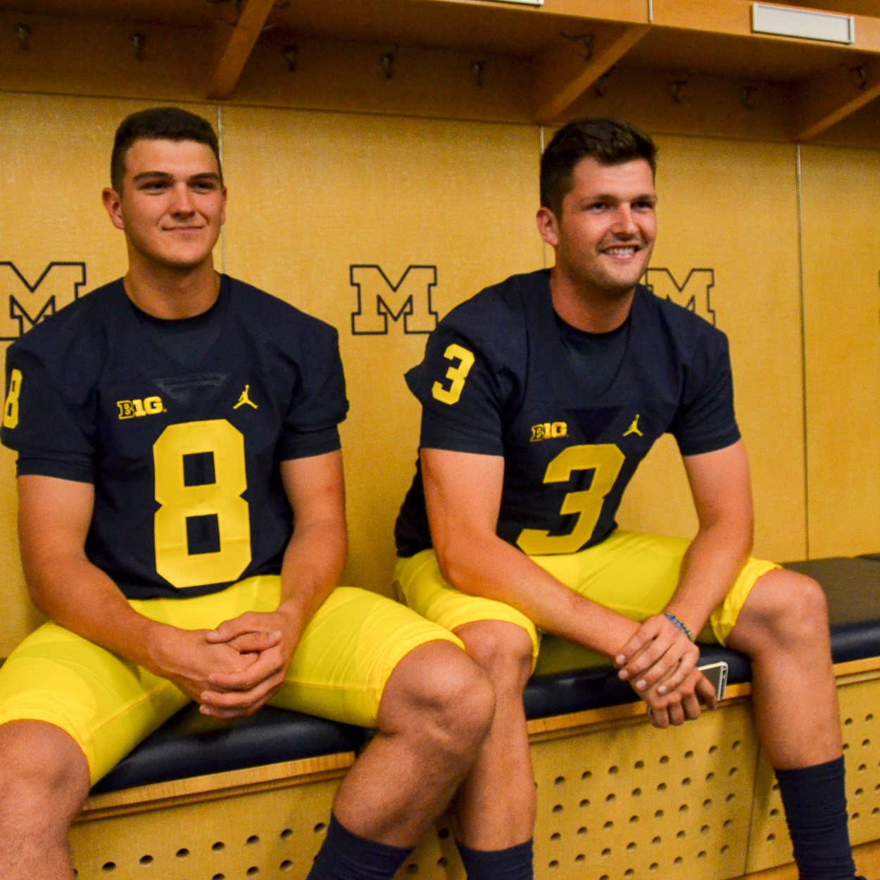 John O'Korn (left) and Wilton Speight